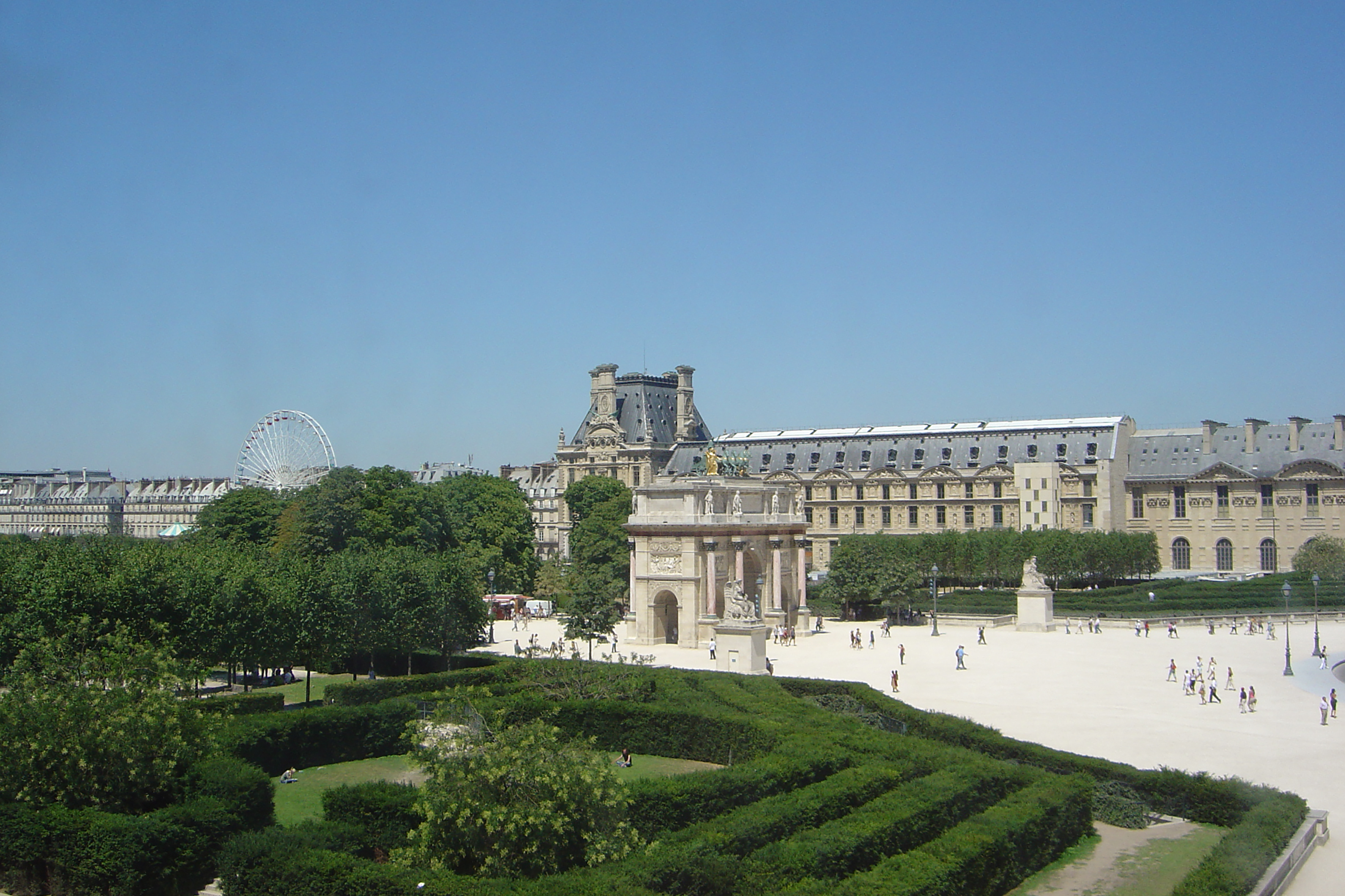 the gardens seen from the Louvre in Paris